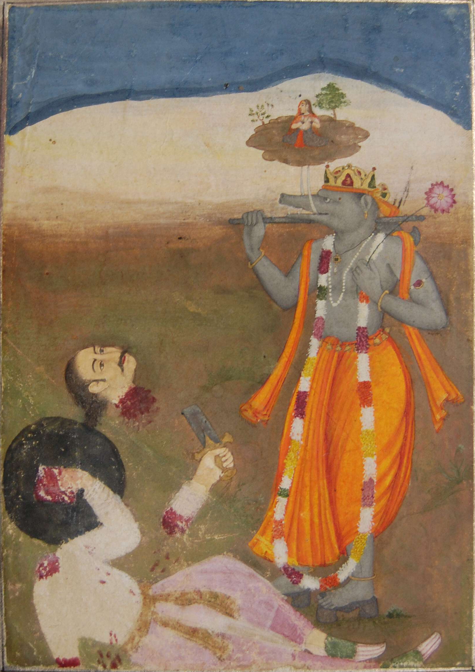 Gouache painting from an album of 26 depicting scenes of Hindu mythology in a variety of painting styles. The boar avatar Varaha, the third incarnation of Viṣṇu, stands in front of the decapitated body of the demon Hiranyaksha. The goddess Bhudevi balances on the boar's tusks.